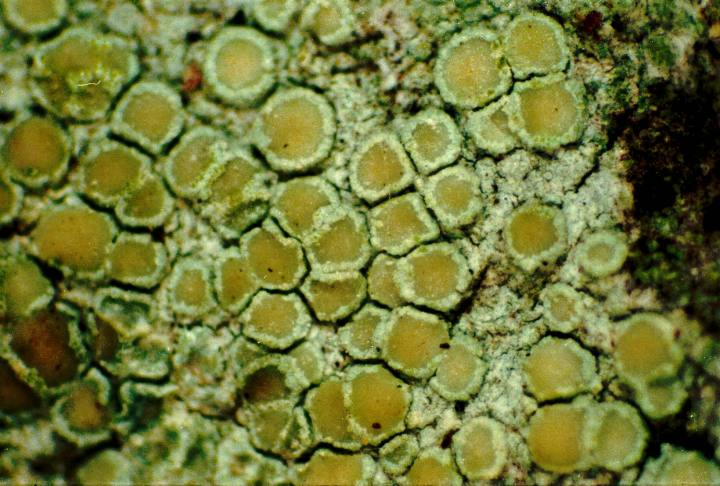 Lecanora strobilina (Sprengel) Kieffer, 1895 (photograph of a herbarium specimen taken through a dissecting microscope (x40) showing a pale yellowish green thallus with small, waxy light yellow apothecia) [Chemical spot tests of thallus and apothecial section: PD-, K-, KC+ yellow, C- (usnic acid & zeorin)] Growing on bark of dead branch of Pinus thunbergiana in the M-NCPPC Lake Artemesia Park, Berwyn Heights, Prince George's County, Maryland, USA; collected by E.C. Uebel, identified by H. Thorsten Lumbsch, Department of Botany, Field Museum of Natural History, 1400 S. Lake Shore Dr., Chicago, IL (Specimen No. U-484C, 22 Oct 2004).